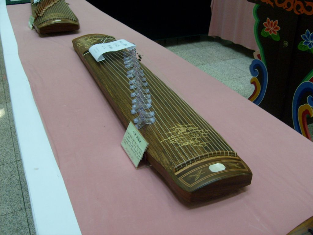 A 15-stringed gayageum, part of an exhibit at Busan Station, Busan, South Korea